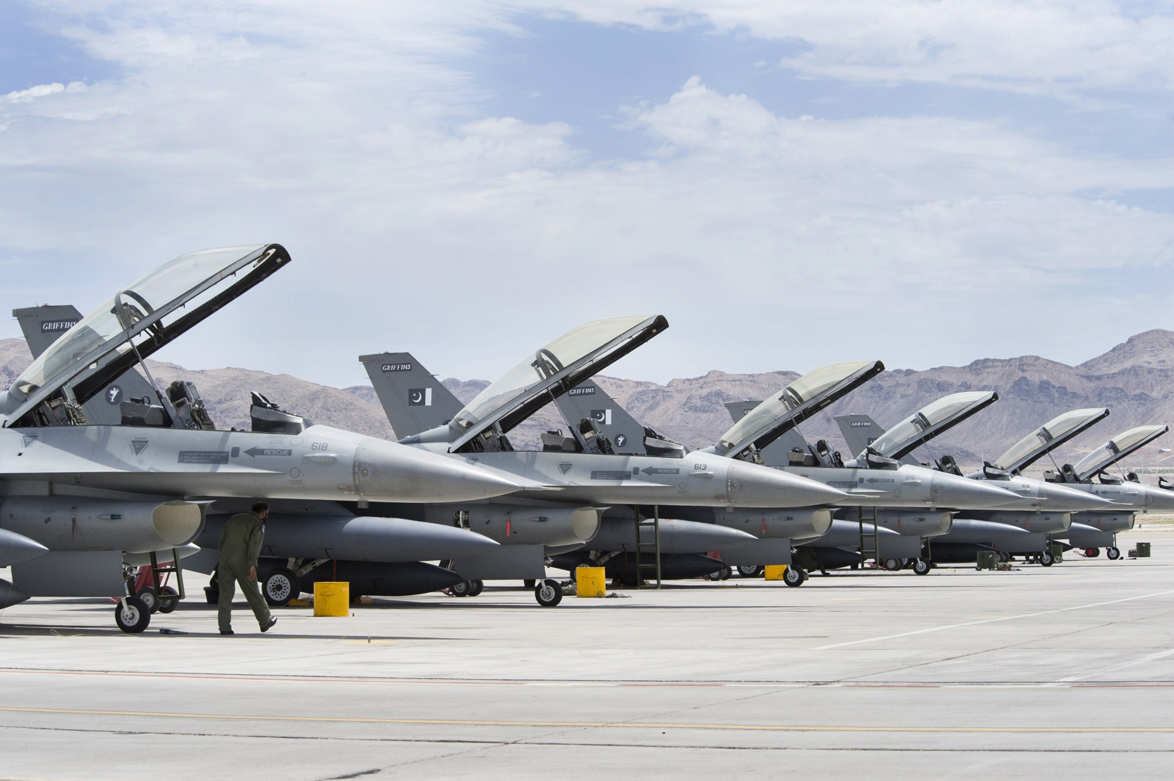 NELLIS AIR FORCE BASE, Nev.-- A Pakistan Air Force crew chief performs a post flight inspection on a F-16 Falcon after pilots and the aircraft arrive for Red Flag 10-4 July 16. The U.S. Air Force is hosting approximately 100 Pakistan Air Force pilots, maintainers and support personnel at Nellis Air Force Base for the world's premier large force employment and integration exercise July 17-31. This is the Pakistan Air Force's first time participating in Red Flag.